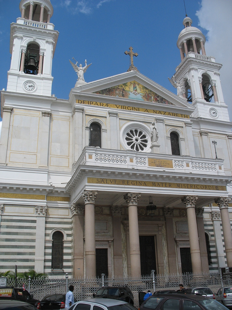 Nazaré Basilica in Belém, Brazil